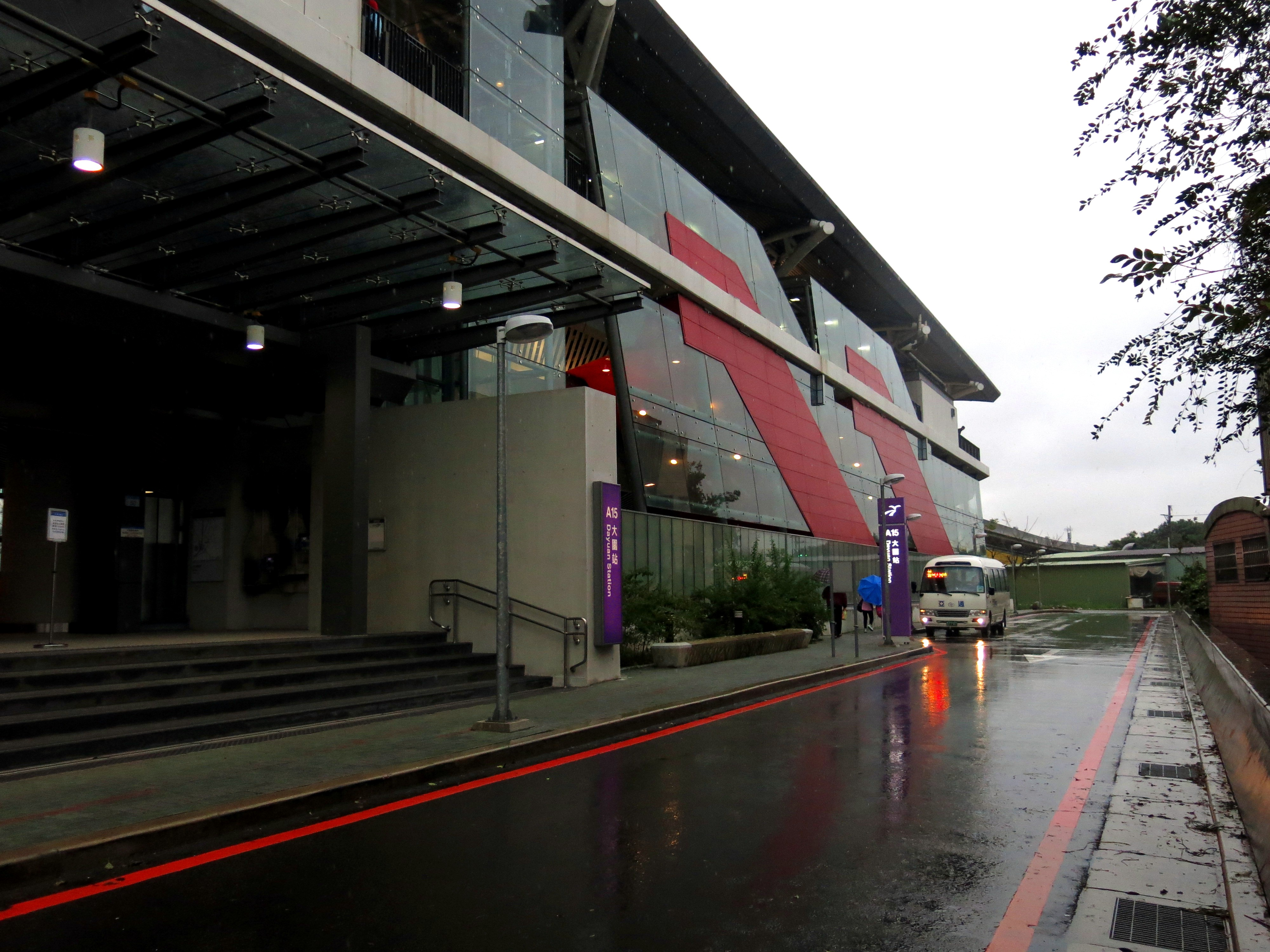 Taoyuan Metro A15 Dayuan Station 中文（中国大陆）: 桃园捷运机场线A15大园站